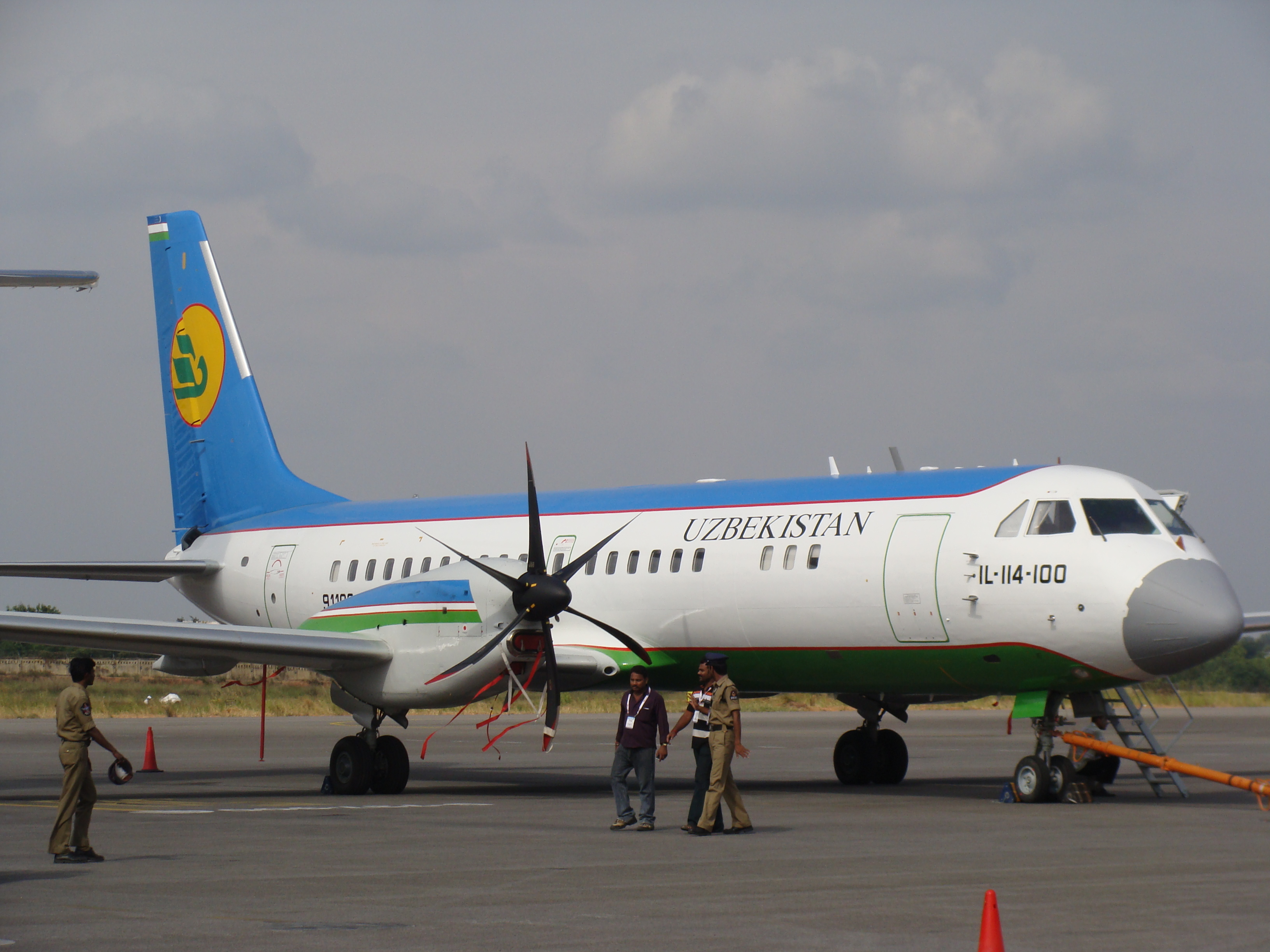 Ilyushin Il-114 at the Hyderabad air show in 2008.